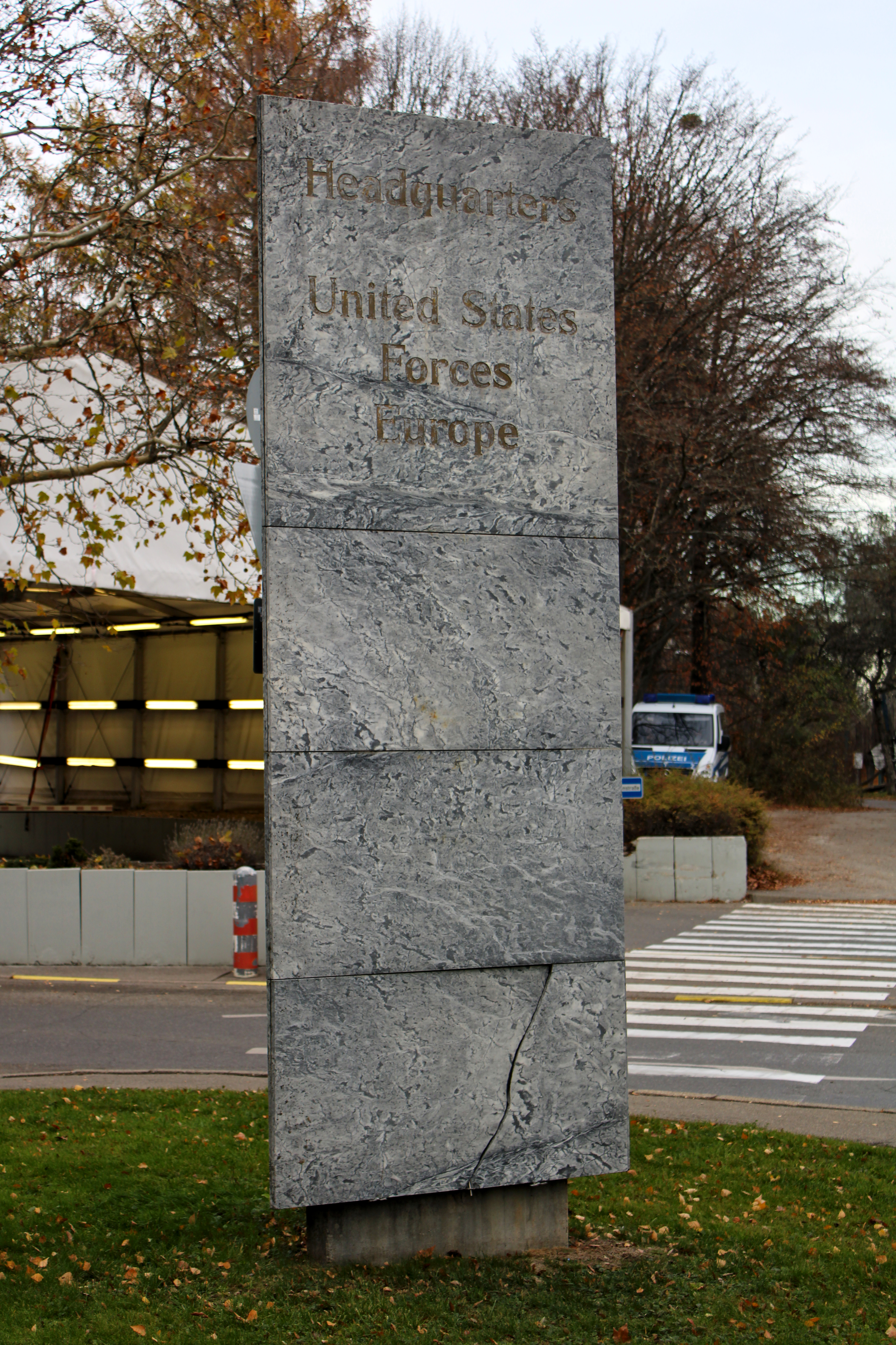 Patch Barracks in Stuttgart